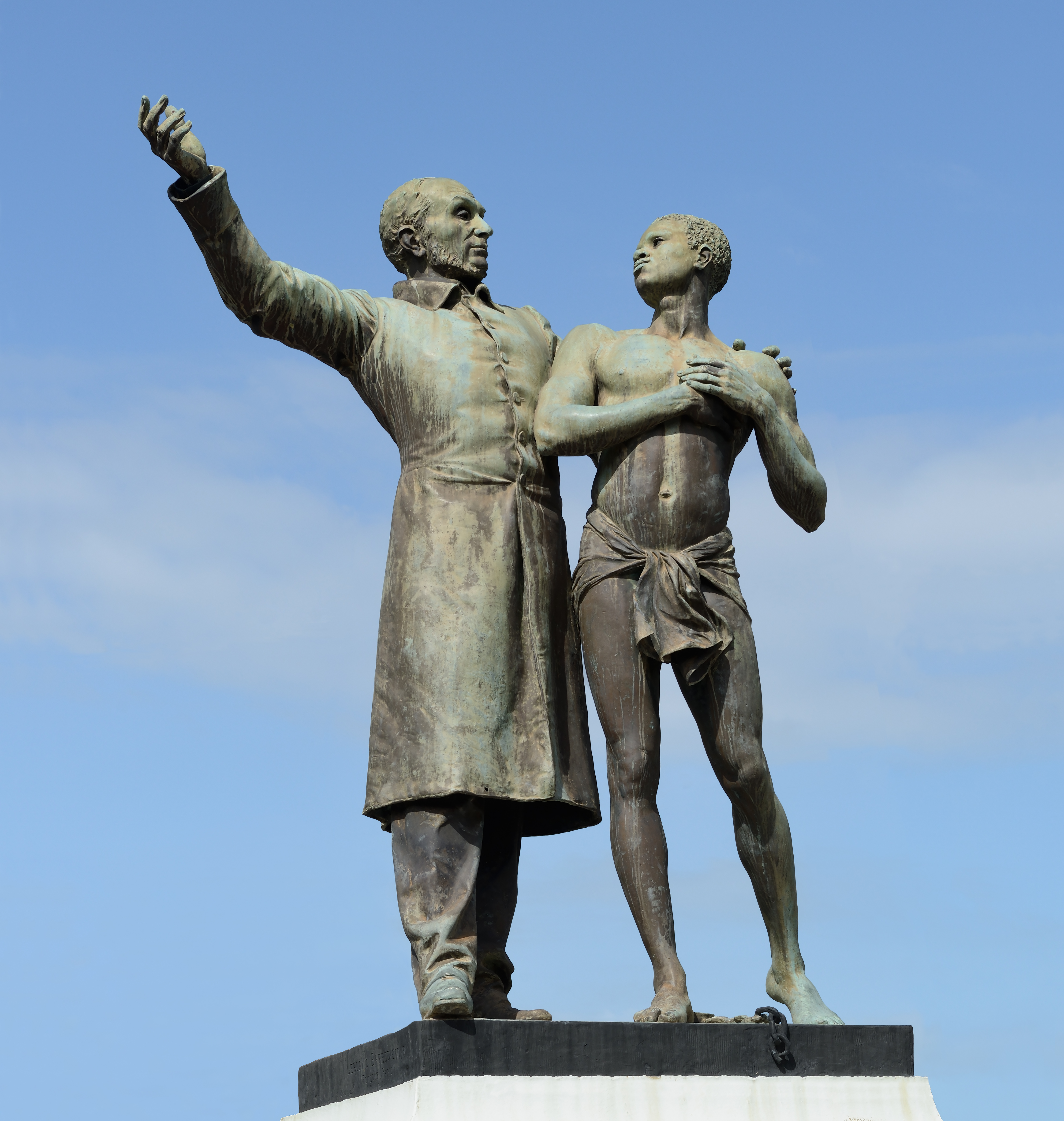 French Guiana, Cayenne, square Victor-Schoelcher: statue of Victor Schoelcher (1804-1893), with a slave whom he shows the way to liberty, following the definitive abolition of slavery in 1848 in France. The monument was erected in 1896, the statue is by the French sculptor Louis-Ernest Barrias (1841-1905), it is listed as Cultural Heritage Monument since 1999.